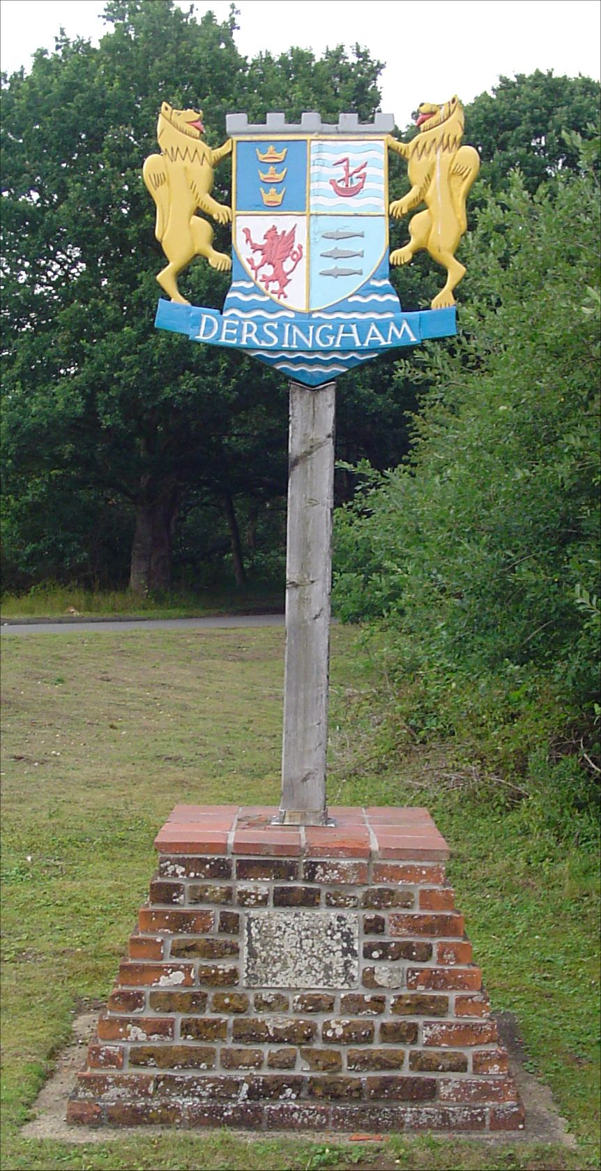 Signpost in Dersingham